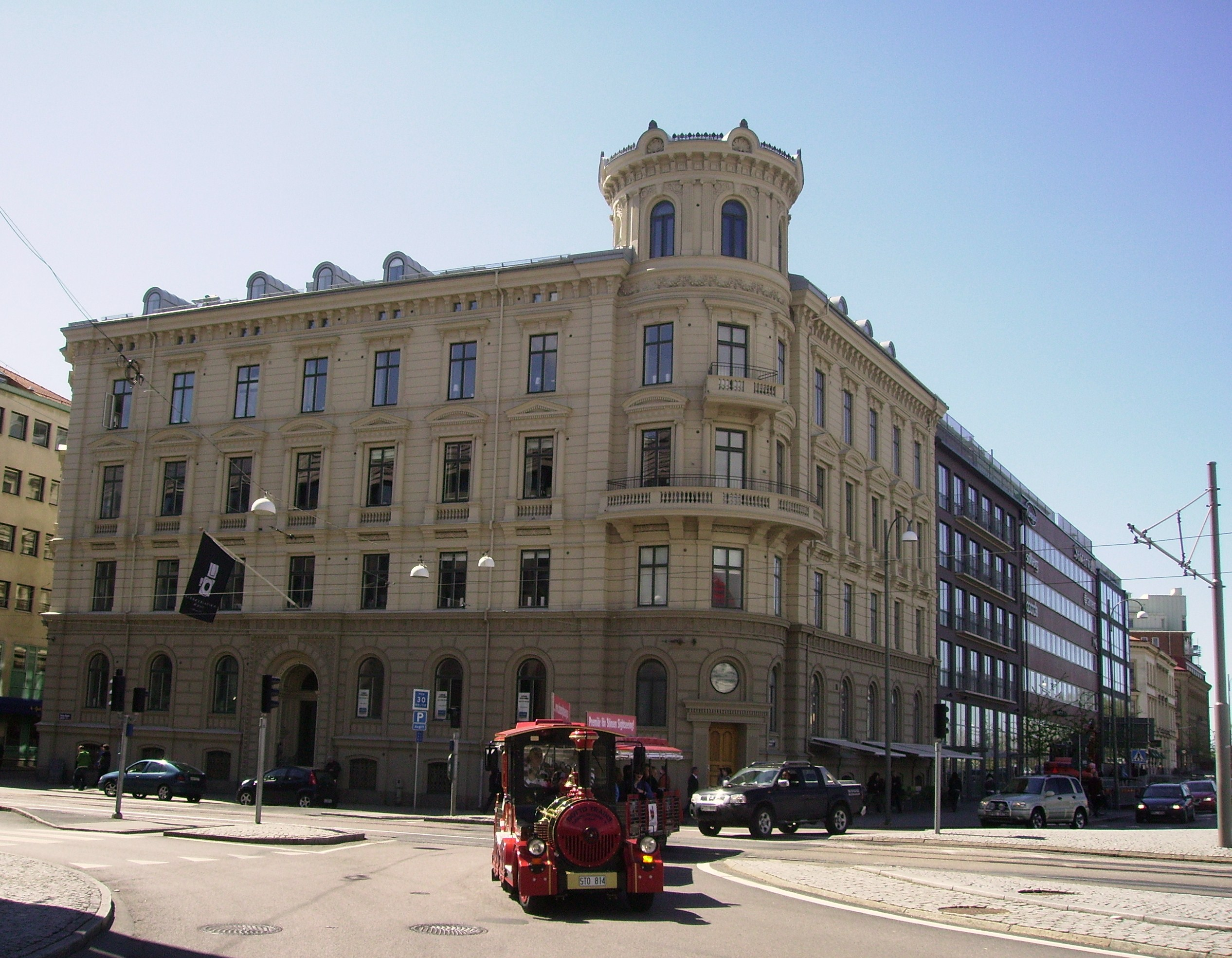 Picture of Hasselblad building in Göteborg